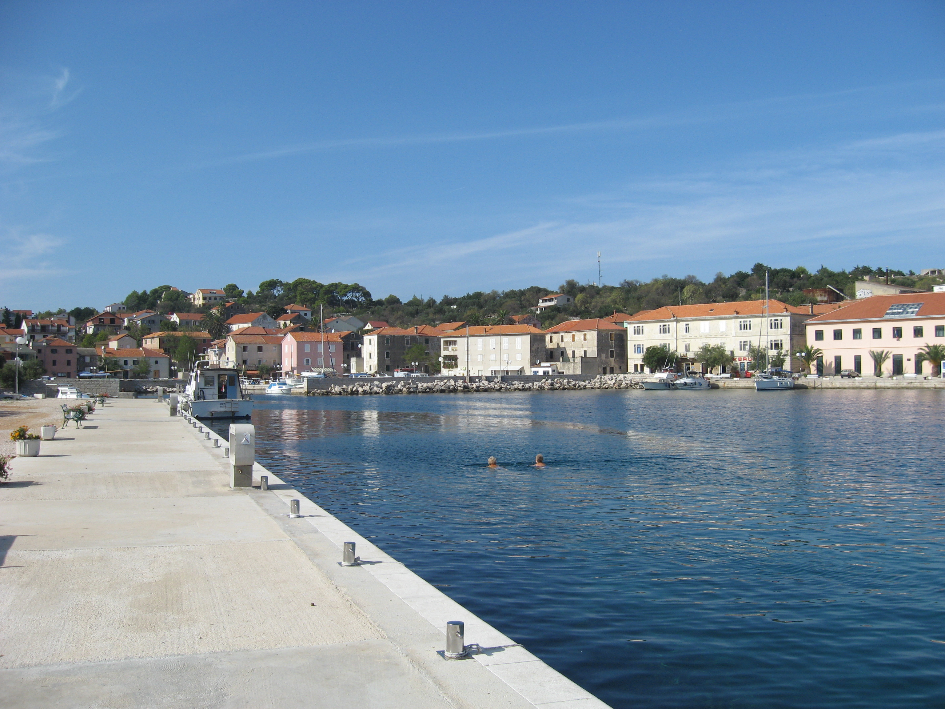 Sali in Dugi Ootok, Croatia